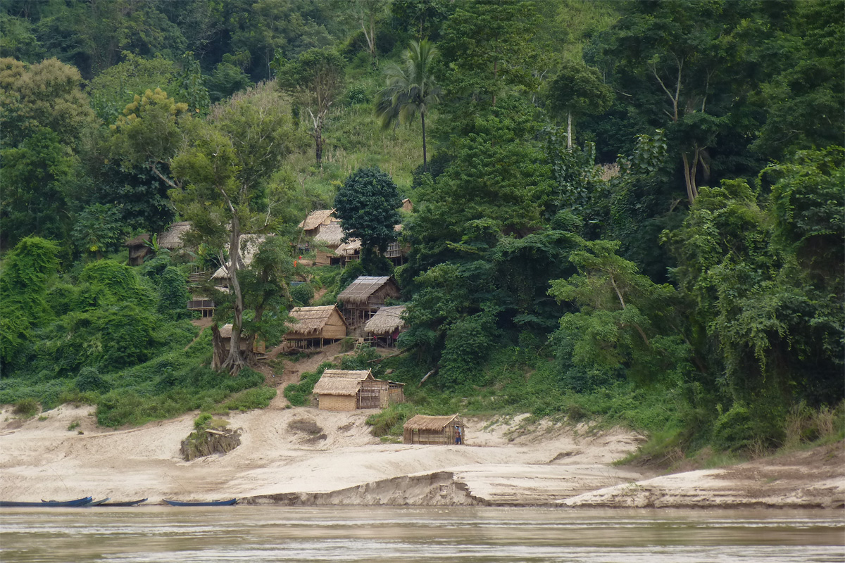 Village on the bank of the Mekong River, Sainyabuli Province, Laos.